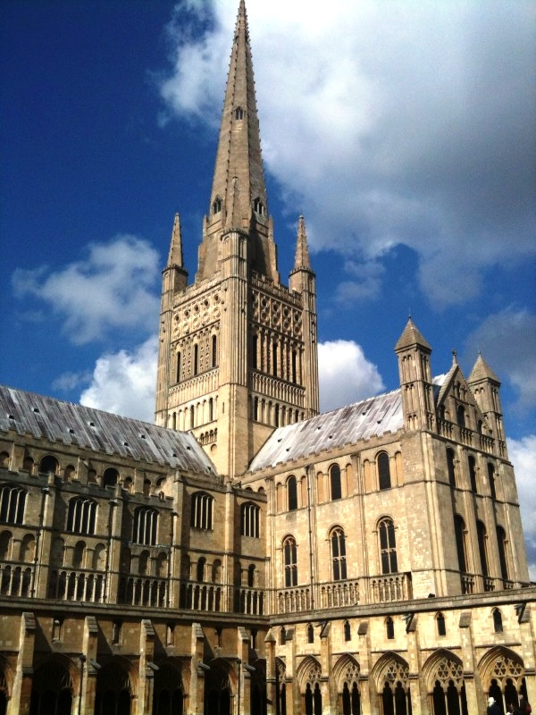 An image of the spire and south transept of Norwich Cathedral.